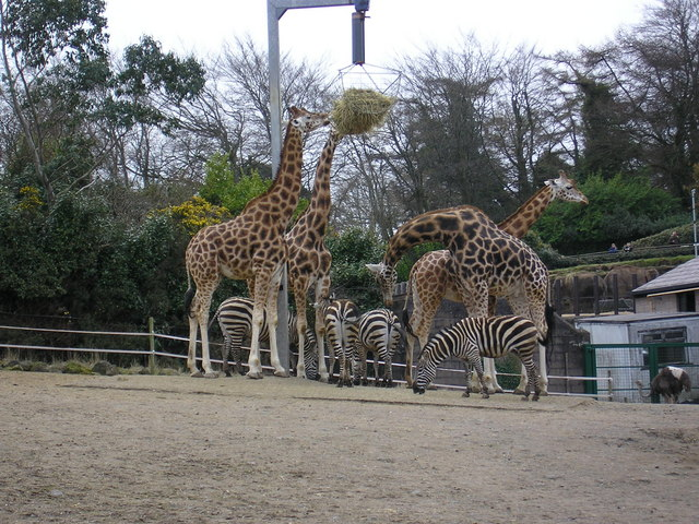 Giraffes and Zebras of Belfast Zoo Shows some of the animals feeding at Belfast Zoo on the Cave Hill, just off the Antrim Road.